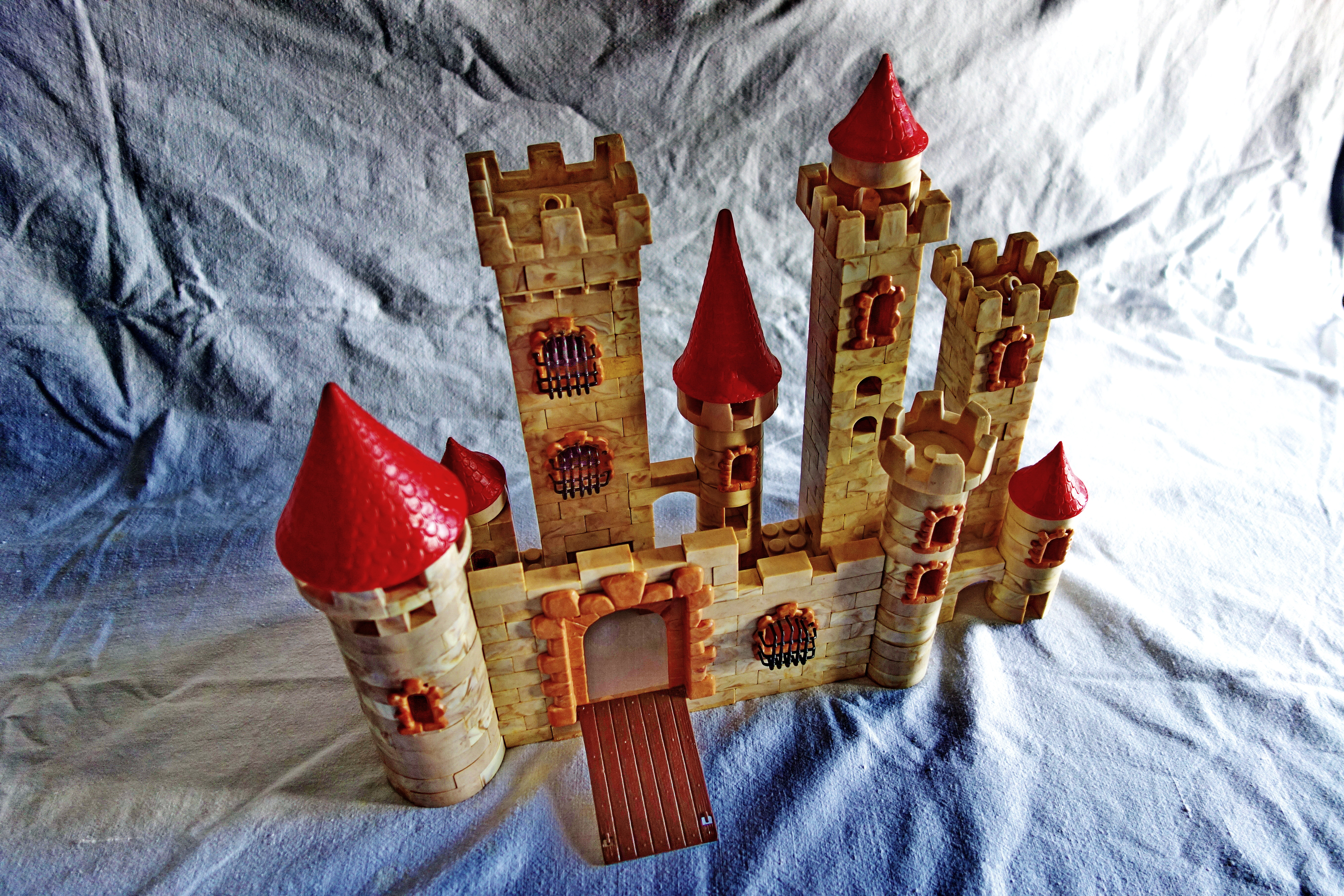 Exin castle.